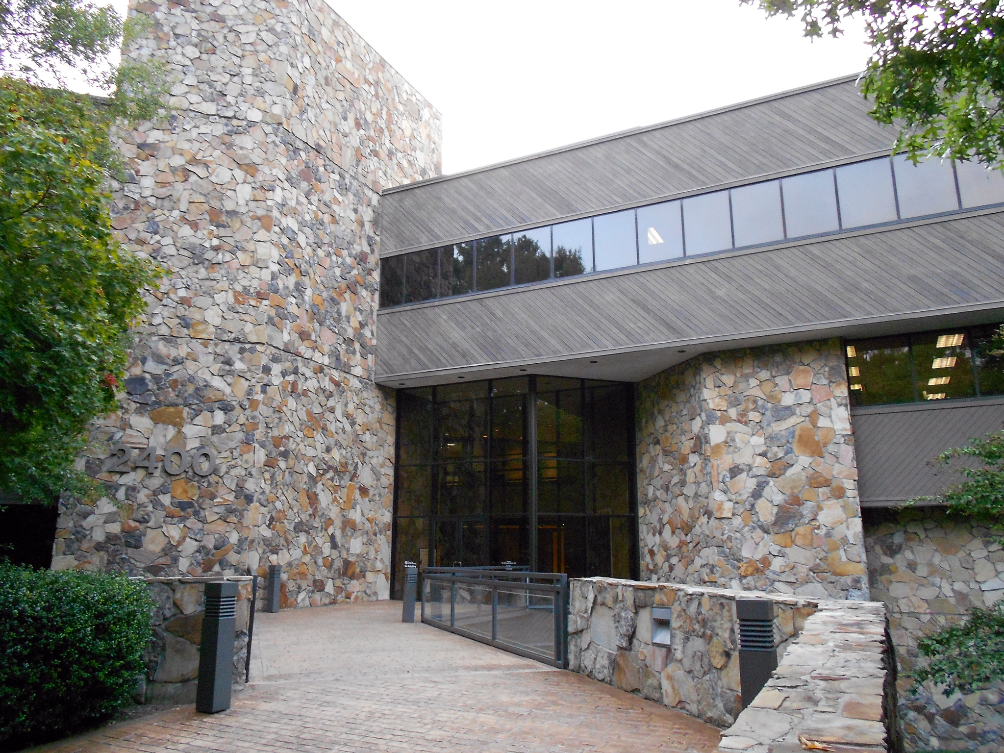 A photo of the outside of 2400 Lake Park Drive, Smyrna, Georgia